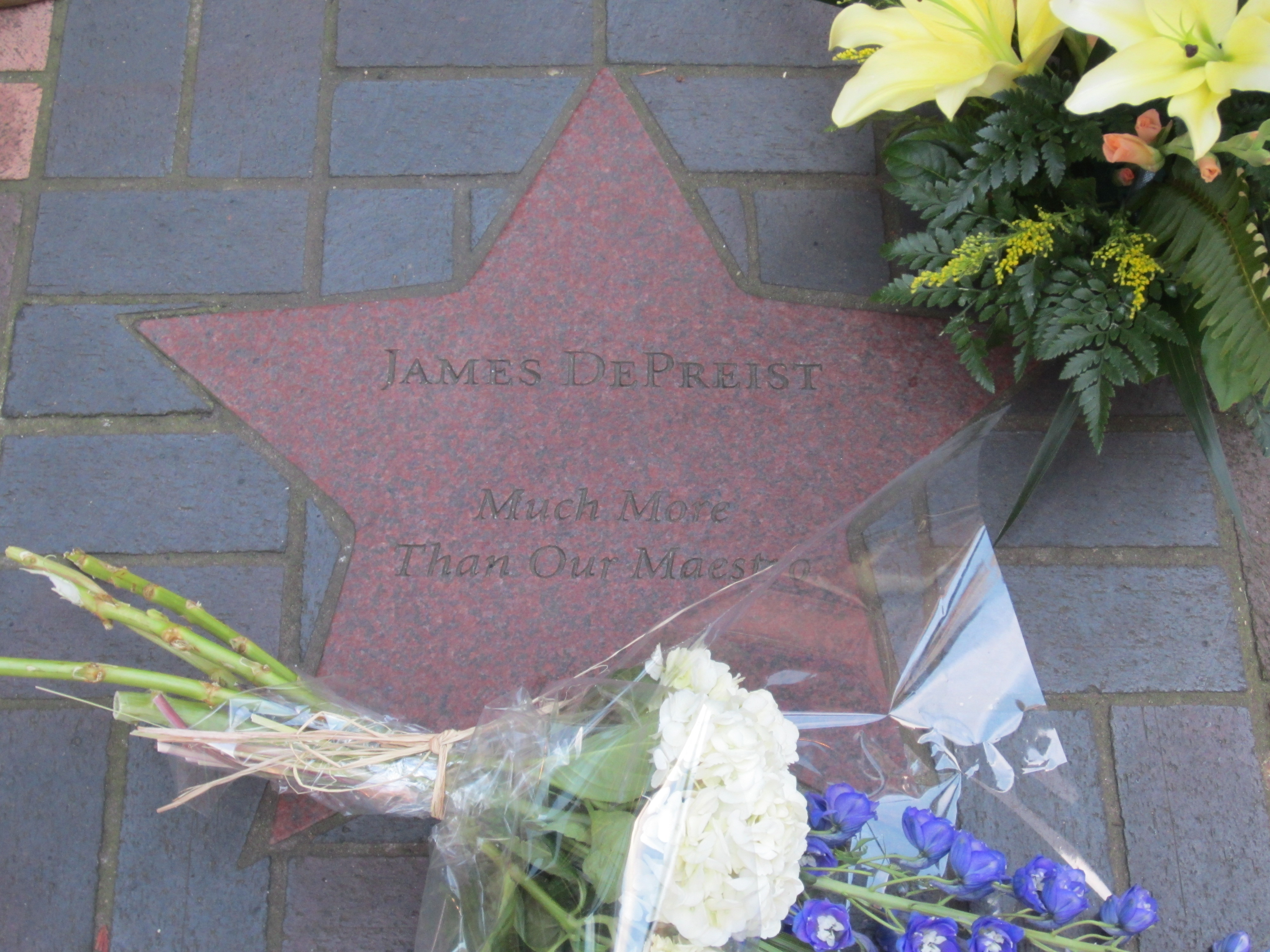 Star for James DePreist at the Main Street Walk of Stars in downtown Portland, Oregon (2013)